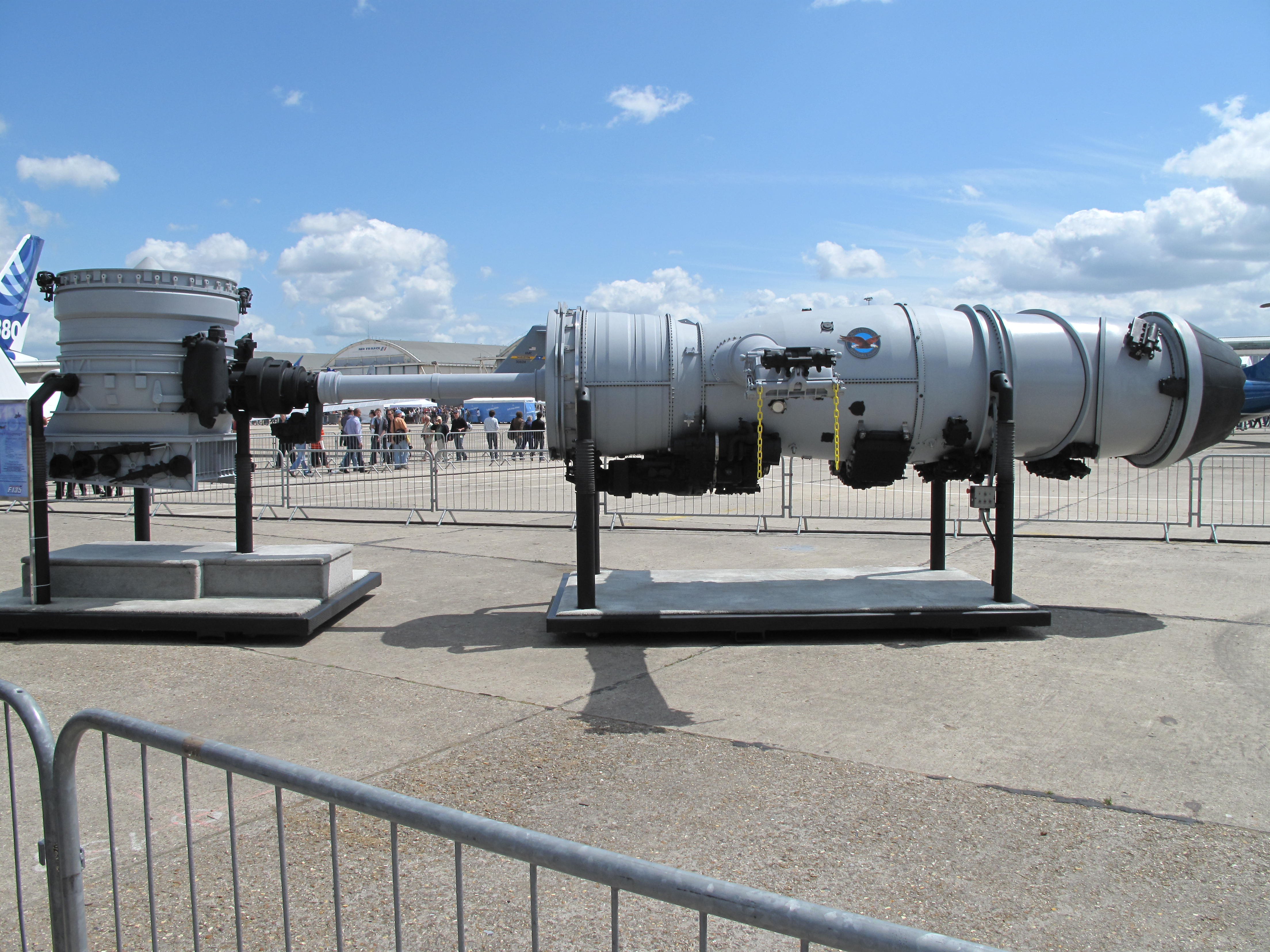 Special STOVL engine Rolls-Royce LiftSystem for a F-35B Lightning II at the Paris Air Show 2009